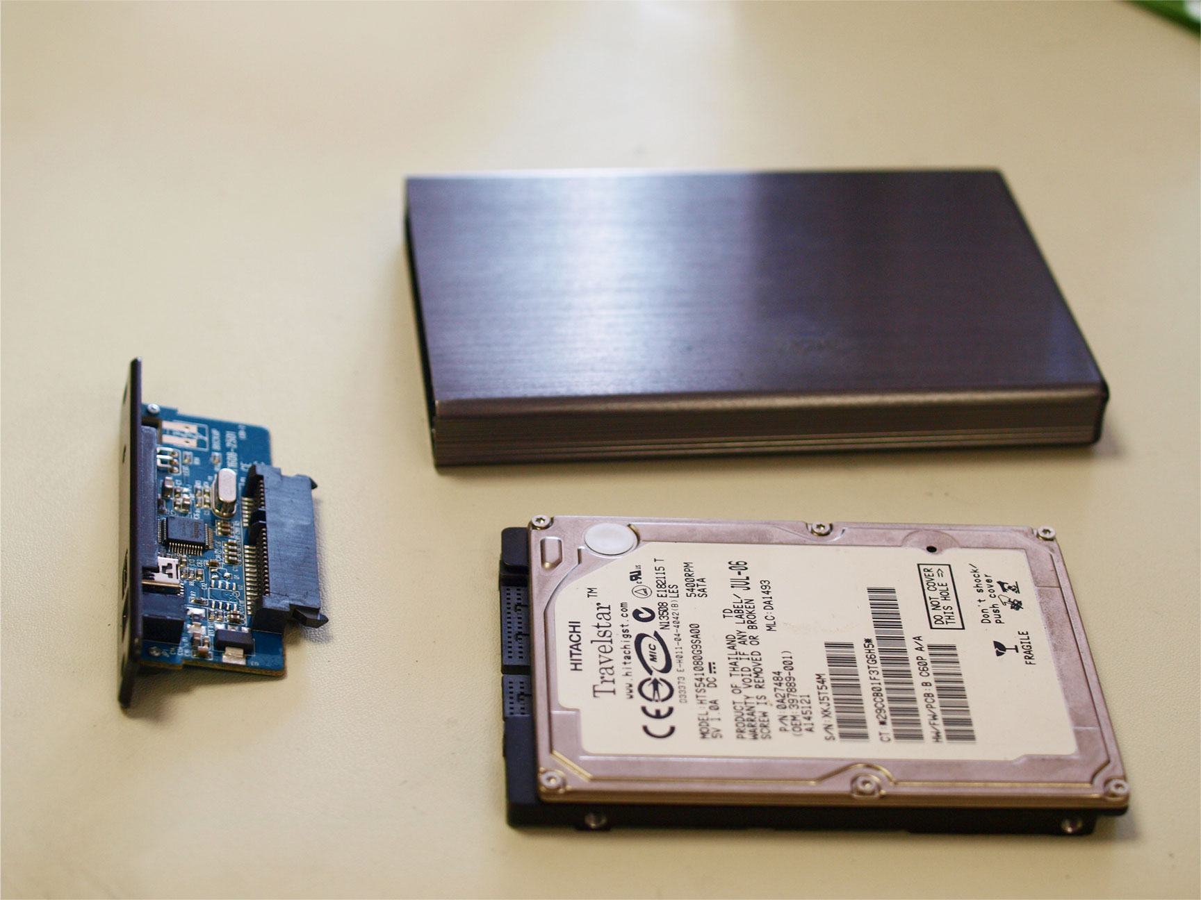 Components of a regular external HDD - The hard drive itself & a Sata-USB adapter.